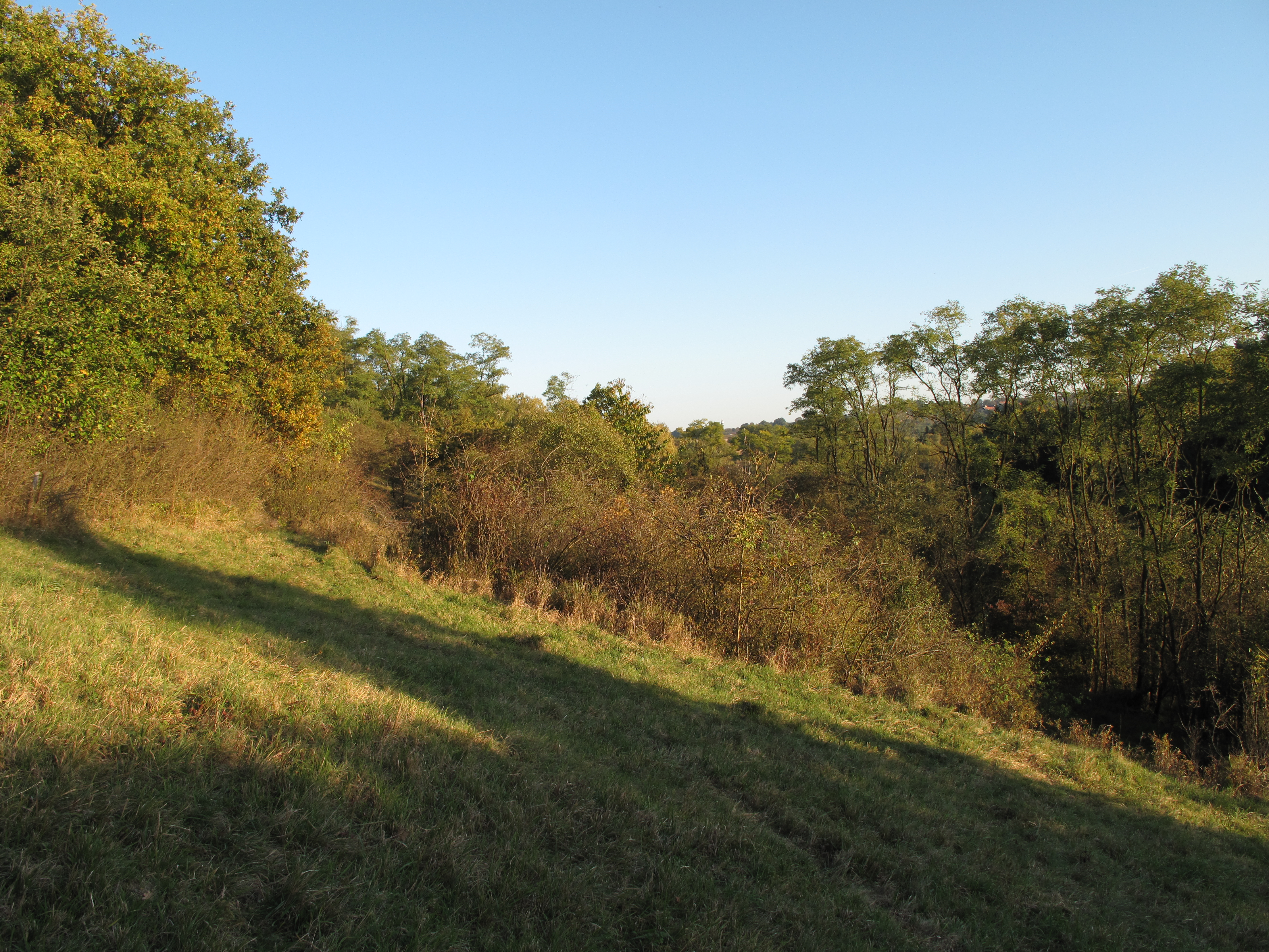 Natural monument Na oboře 1, Mělínk District, Czech Republic. Project: Chráněná území.